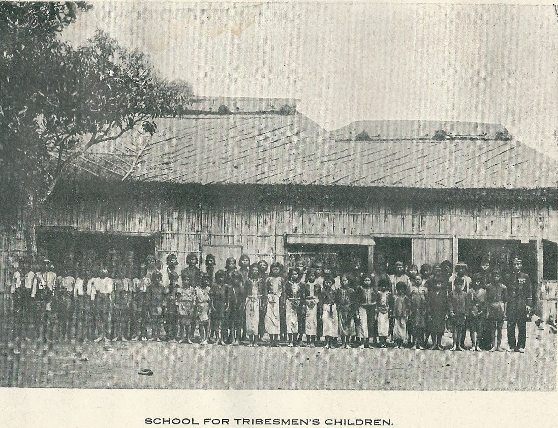 A page from a 1926 govermental report on tribal life in Formosa under Japanese rulership.